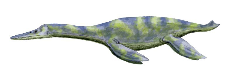 Dolichorhynchops osborni, a plesiosaur from the Late Cretaceous of North America, pencil drawing